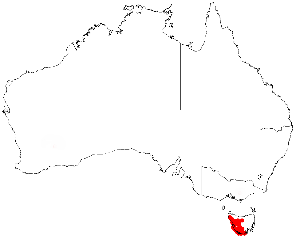 Actinotus bellidioides occurrence data downloaded from Australasian Virtual Herbarium on 8 January 2020 using